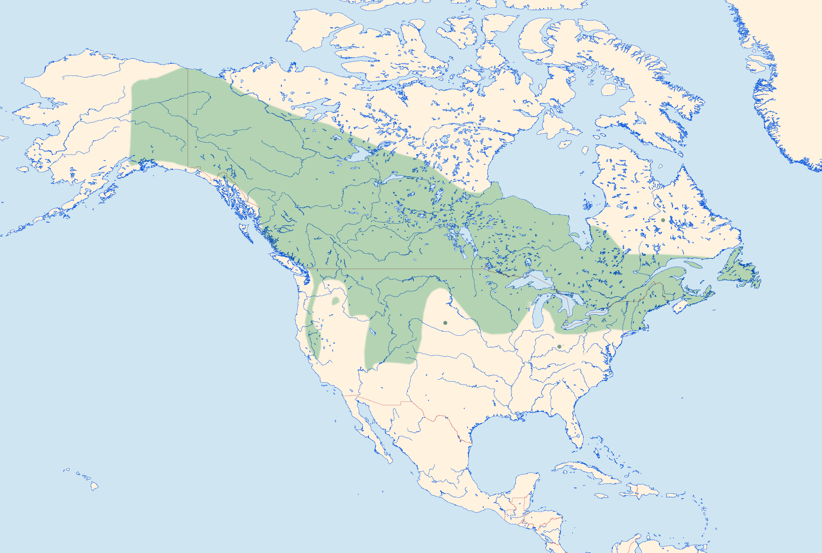 Distribution of Taiga Bluet (Coenagrion resolutum). Data Sources (In case of discrepancies in the map source the youngest in each data source was used): Dennis Paulson: Dragonflies and Damselflies of the East, Princeton Field Guides, Princeton University Press, New Jersey 2011, ISBN 978-0-691-12283-0. Dennis Paulson: Dragonflies and Damselflies of the West, Princeton Field Guides, Princeton University Press, New Jersey 2000, ISBN 978-0-691-12281-6.